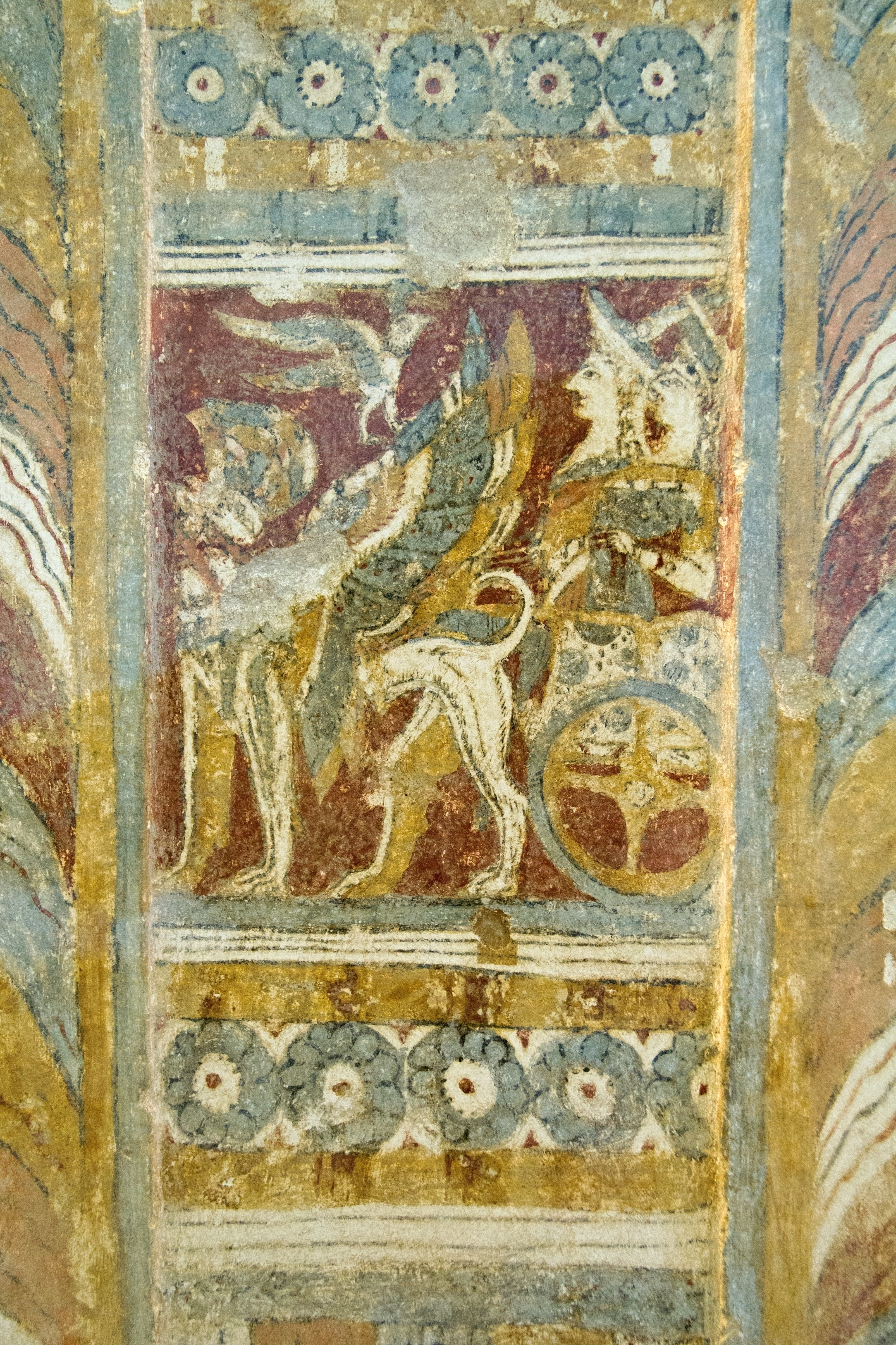 Sarcophagus of Agia Triada, short side. Carriage with a griffin and bird. In the carriage are deities? 1370-1320 BC. Archaeological Museum of Heraklion.